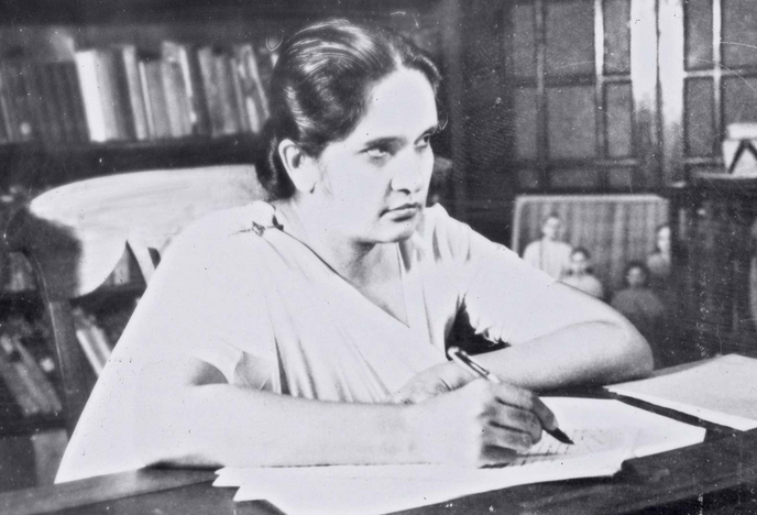 Sirimavo Bandaranaike, Prime Minister of Ceylon, 1960, UPI photo ID #TKP 1240203